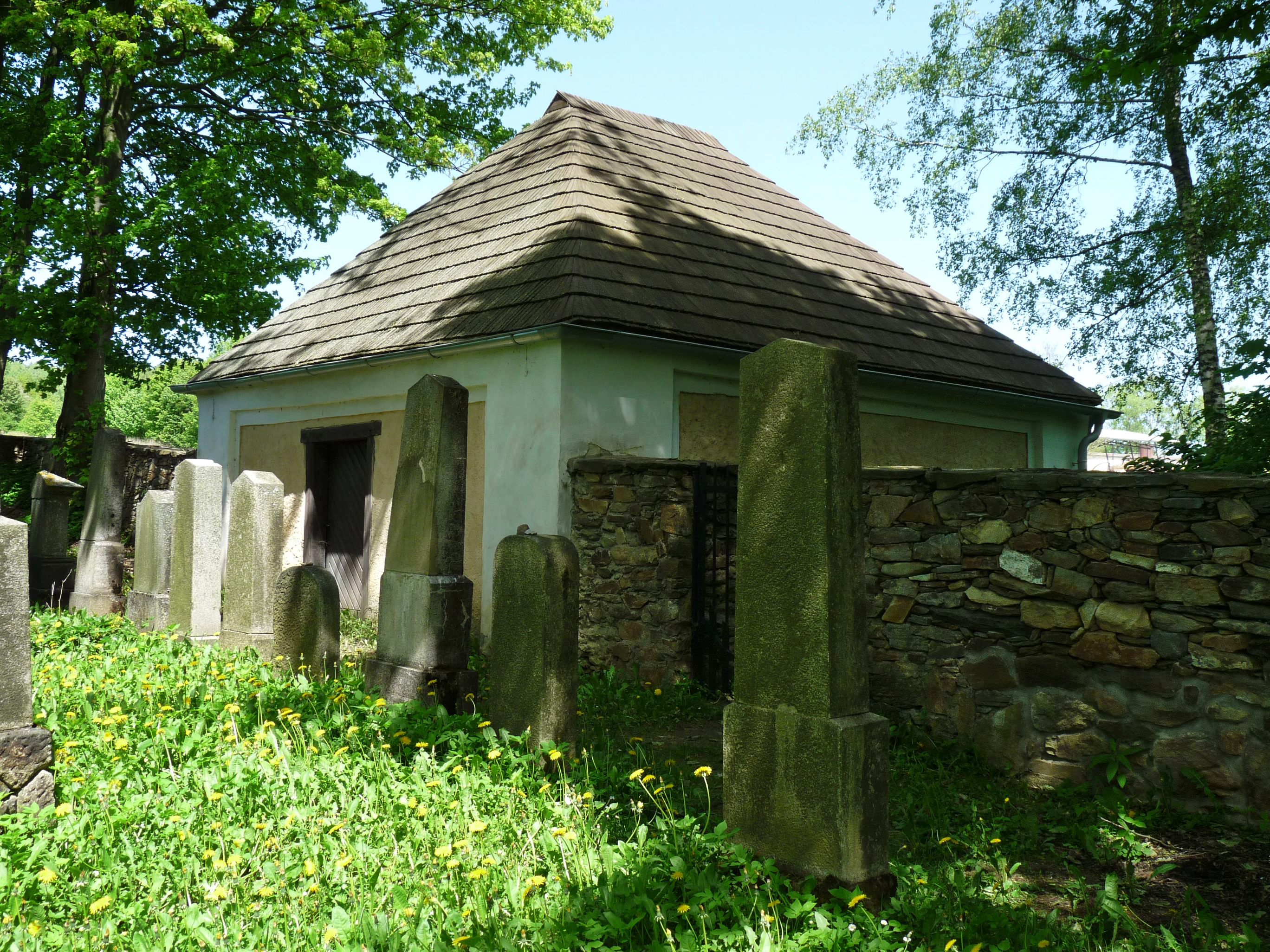 Jewish cemetery in the town of Černovice, Pelhřimov District, Vysočina Region, Czech Republic - ceremonial hall.